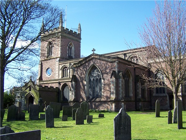 Barrow Upon Soar parish church taken by kev747